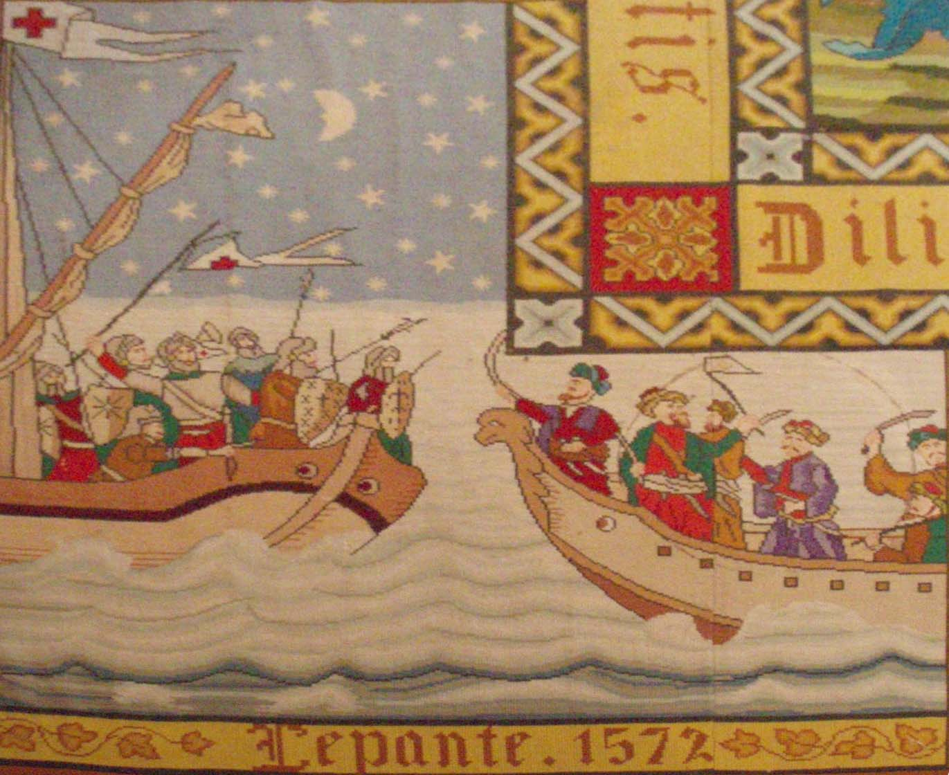 Battle of Lepanto, part of a 19th-century tapestry in museum Kijk-je kerk-kunst, Gennep, Netherlands